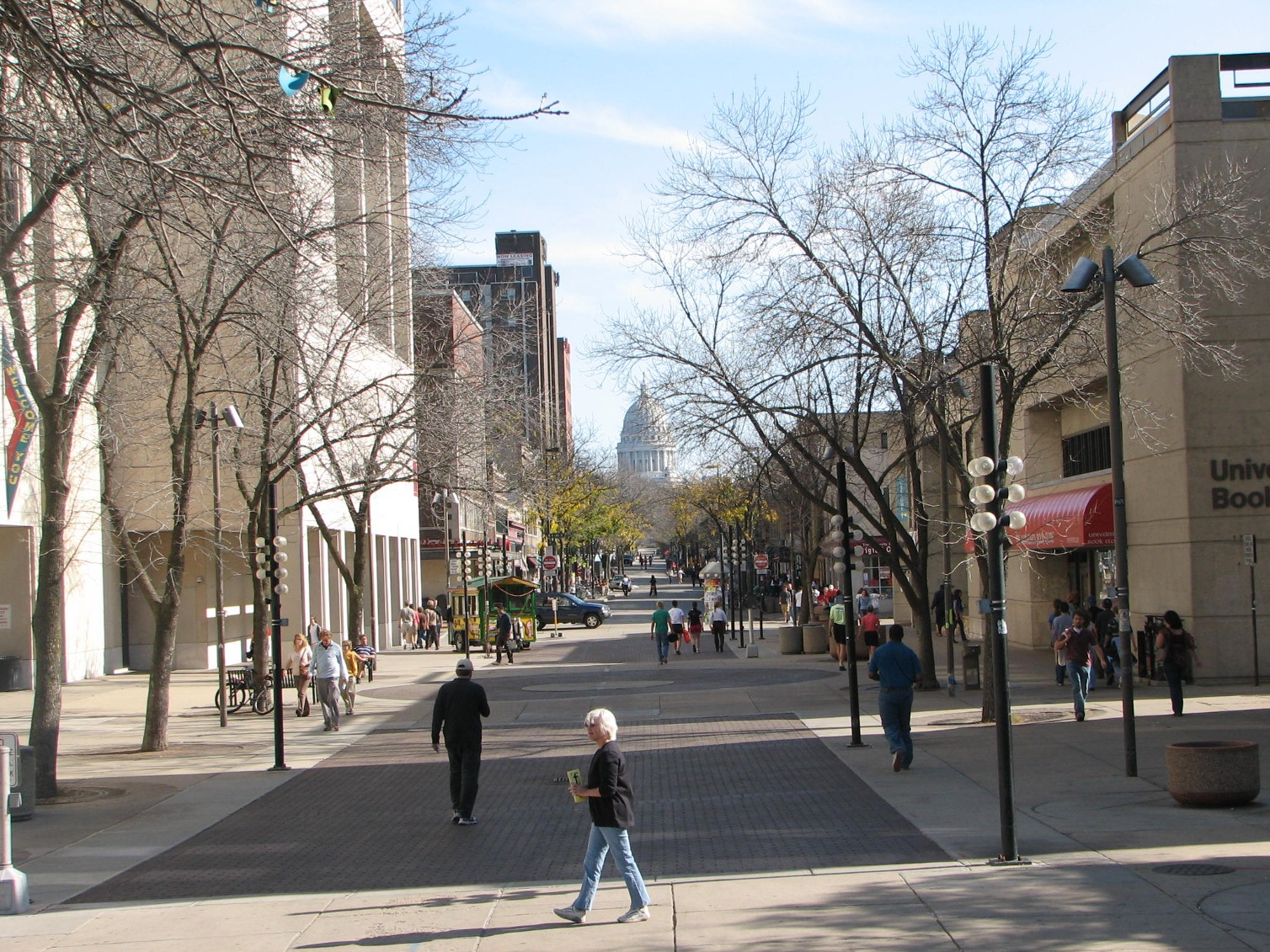 Looking up State Street from Library Mall. Fall, 2007.